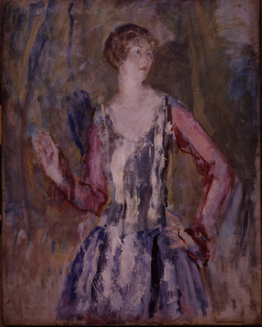 Nancy Cunard (1896-1965)